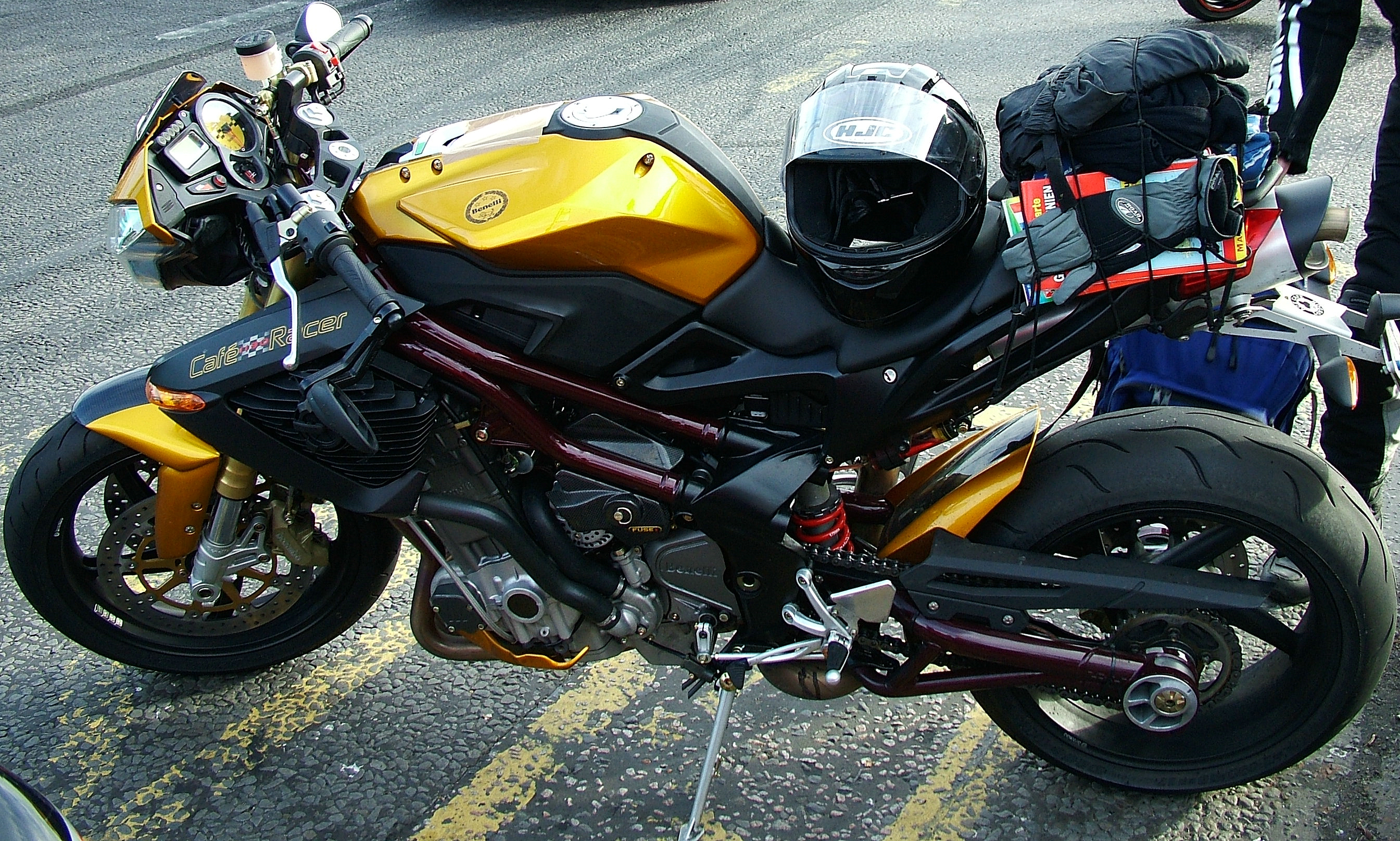 Benelli TNT Cafe Racer @ Ace cafe Reunion Weekend 2006